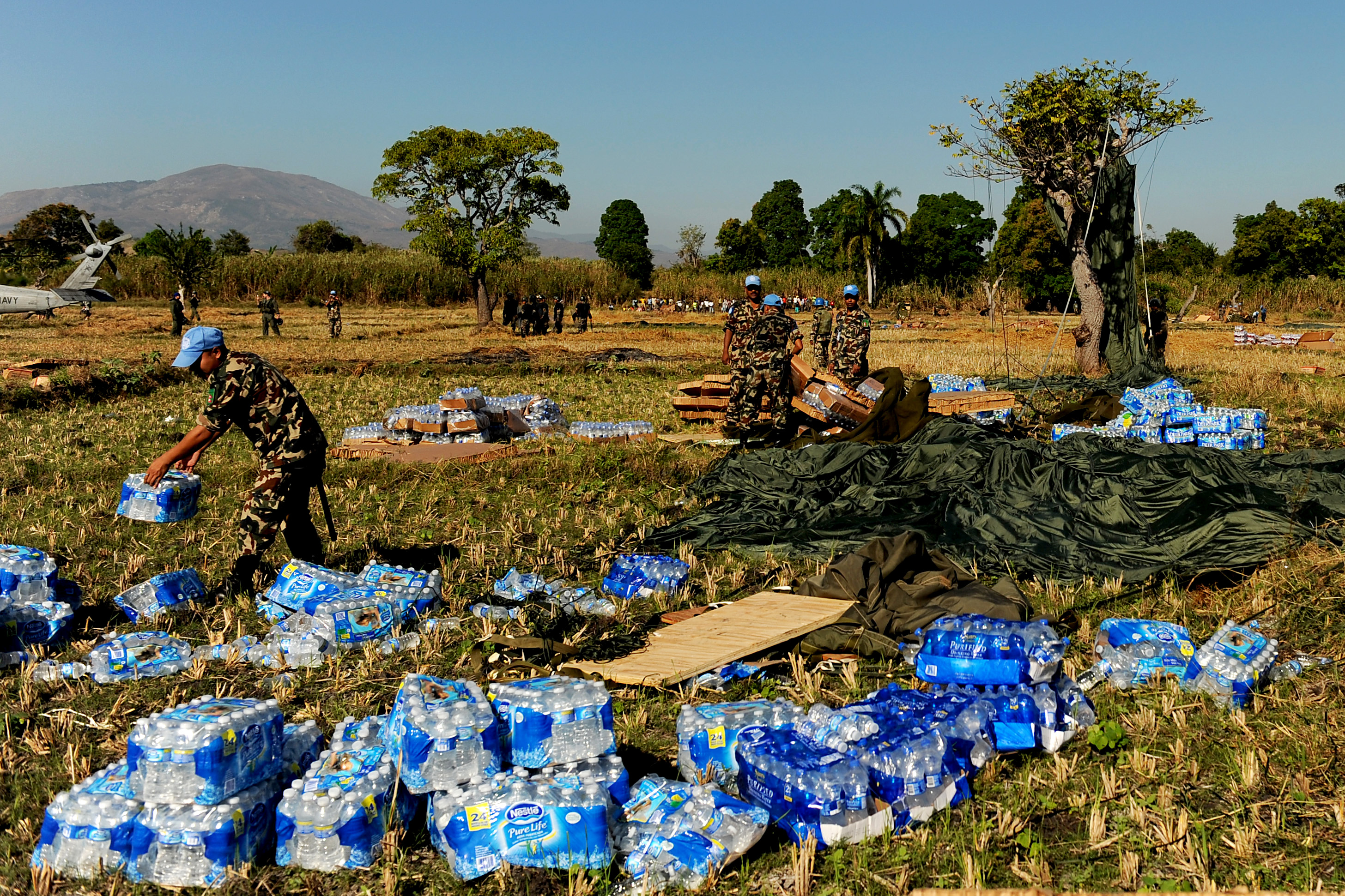 Nepalese soldiers stack water after a U.S. Air Force C-17 Globemaster III aircraft air dropped pallets of water and food in Mirebalais, Haiti, Jan. 21, 2010.